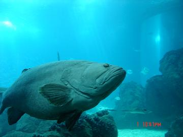 Fish at Lisbon's Oceanario